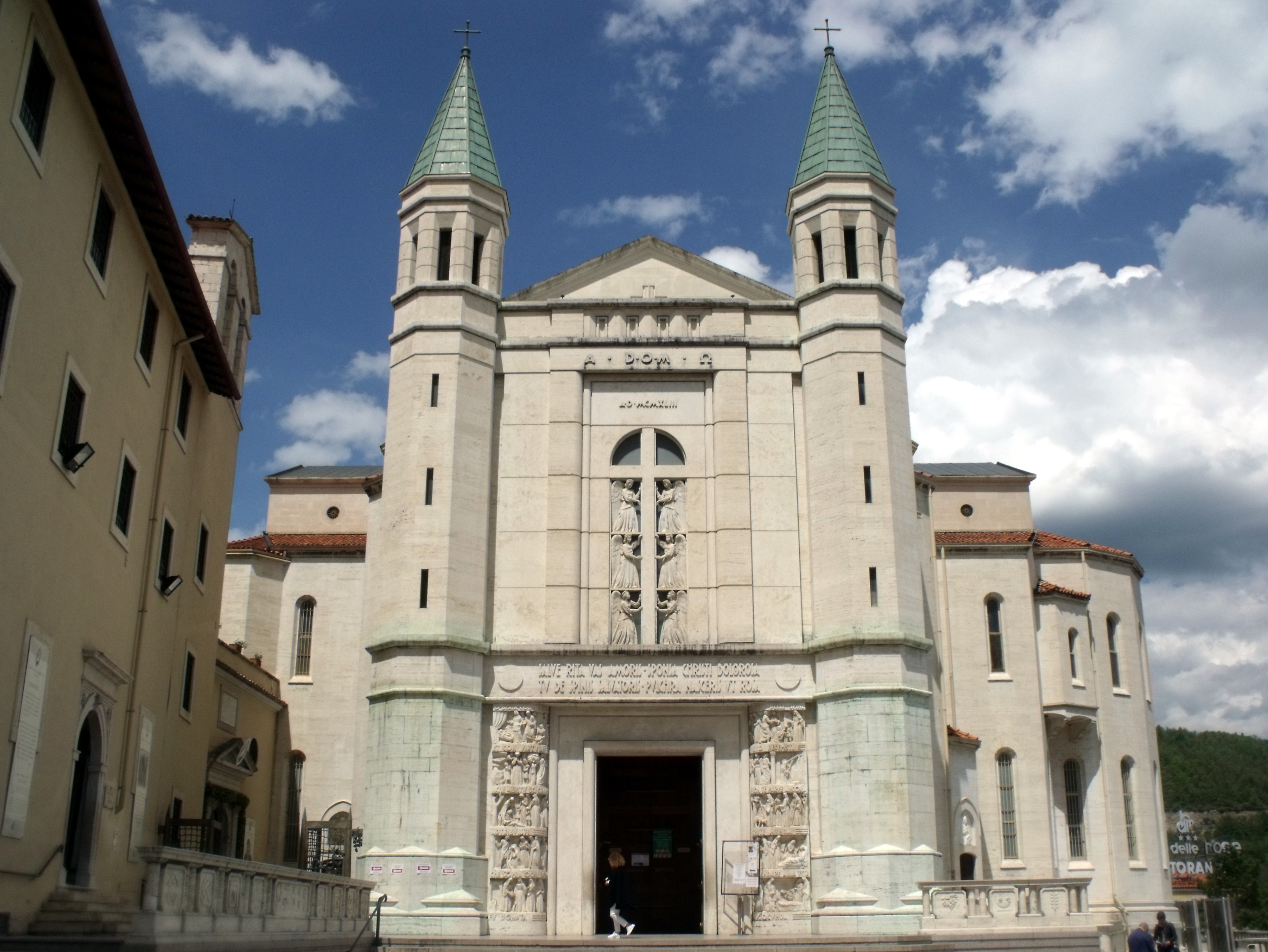 Sanctuary and Basilica of Santa Rita in Cascia, Province of Perugia, Umbria, Italy